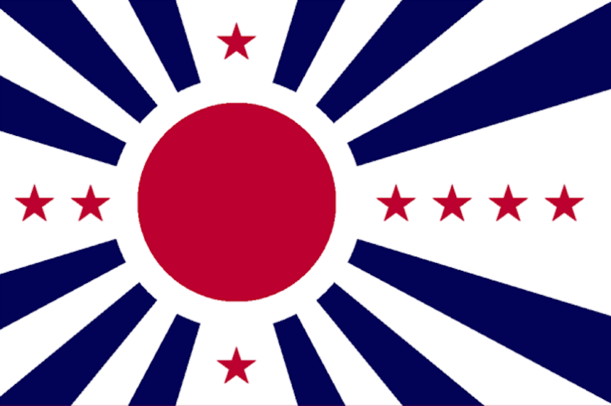 The flag of the fictional Japanese Pacific States, a puppet regime created by the Empire of Japan in the western United States, featured in the Amazon drama series The Man in the High Castle.